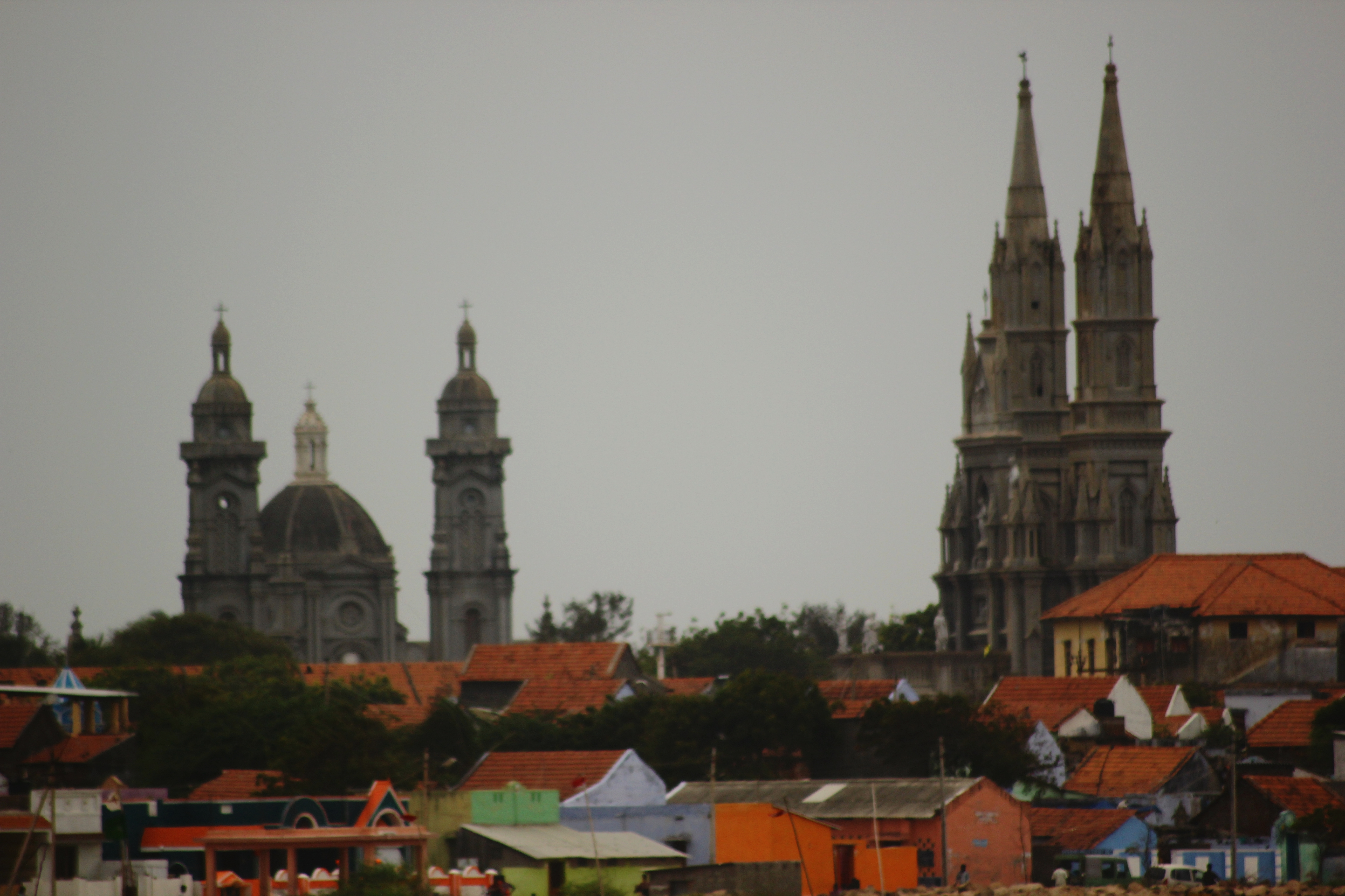 Manapad or Manavai is a historical place for Catholic mission, TamilNadu.